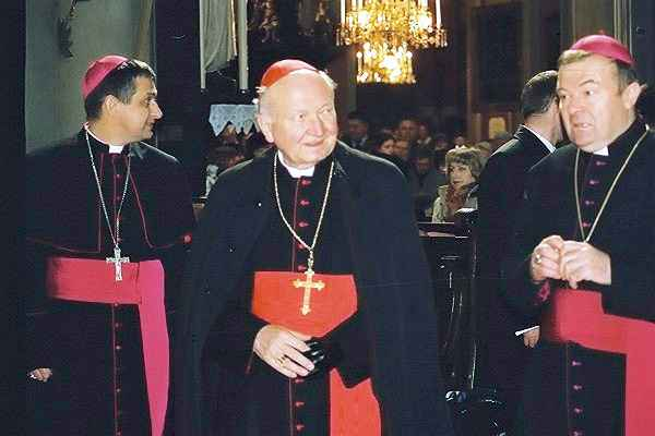 Marian Jaworski, Roman Catholic cardinal (one of two Vatican cardinals from Ukraine), along with other bishops from Lviv: from left: bishop Leon Maly, cardinal Marian Jaworski, bishop Marian Buczek, Ukraine. Author of photograph: Anna Gordijewska Source URL